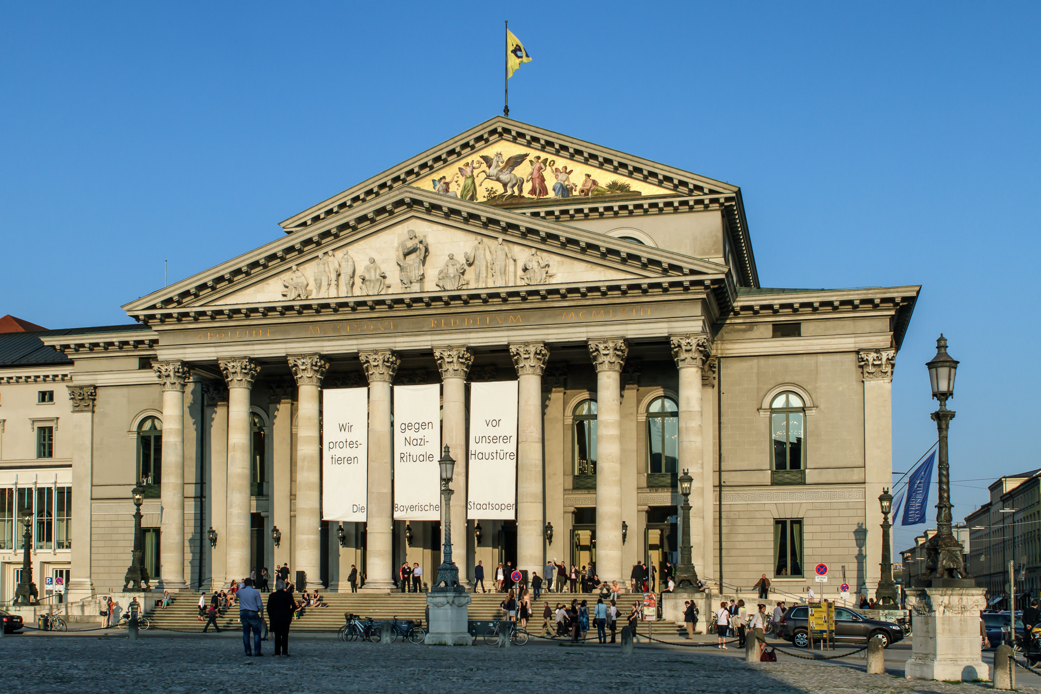 National Theatre Munich / Bavarian State Opera - Munich - 2013